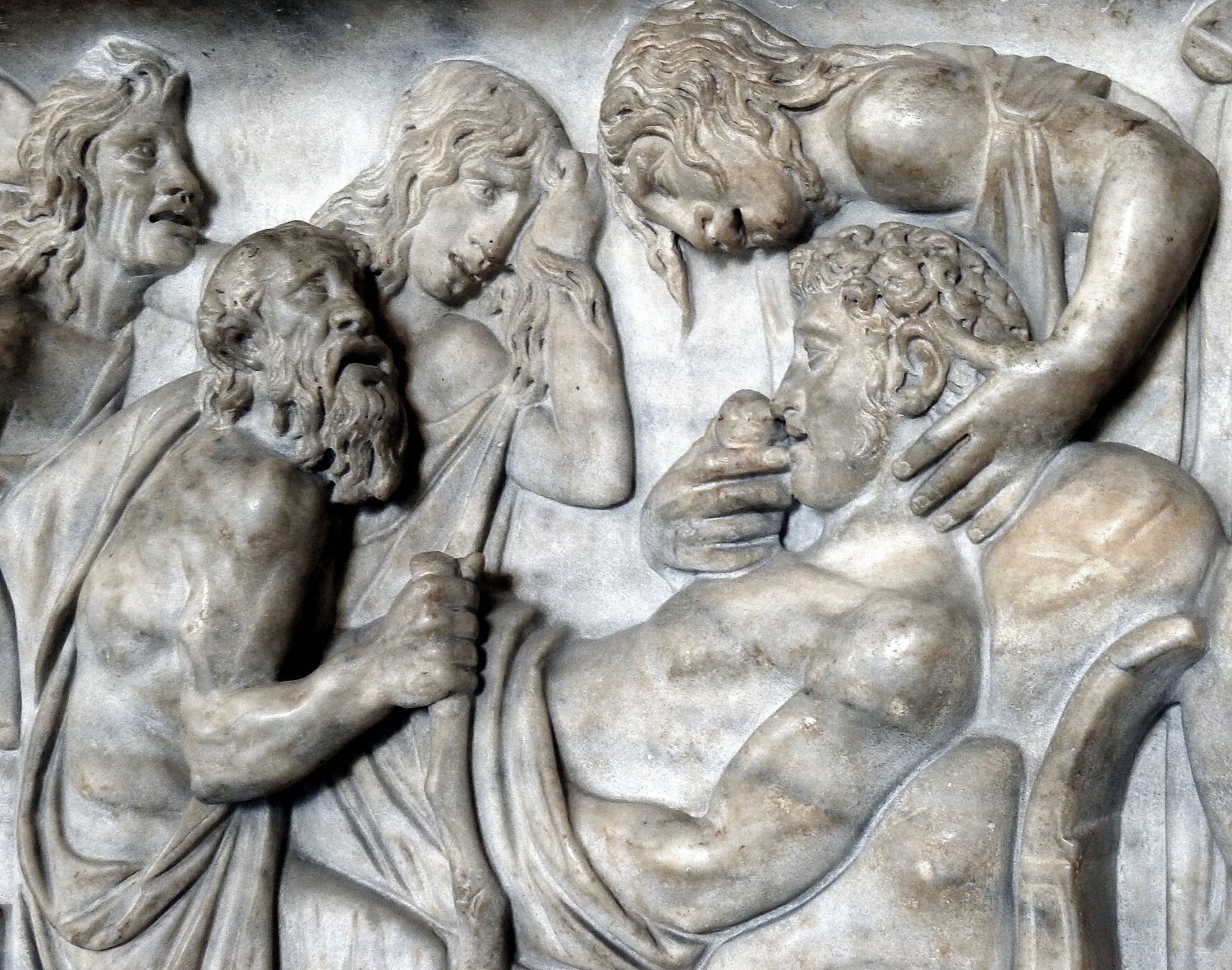 Death of Meleager, detail from a panel of a Roman sarcophagus.